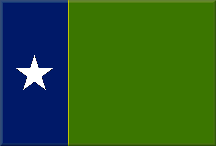 Jubbaland flag The factual accuracy of this description or the file name is disputed.Reason: Please see the relevant discussion on the talk page.